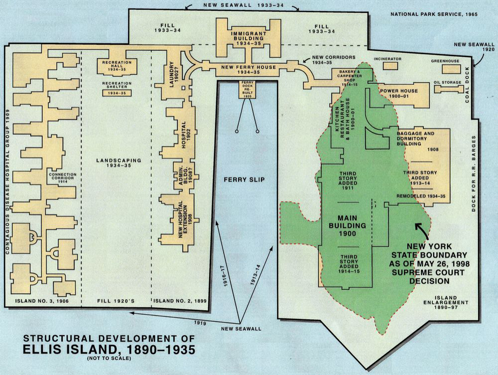 Sketch map of Ellis Island, New York City. Green is the area of the original natural island (only this area is part of New York City, while the man-made rest of the island is part of Jersey City in the State of New Jersey), the rest is all man-made between 1890 and 1935 by land reclamation, using filling material from subway construction. North = upper right corner